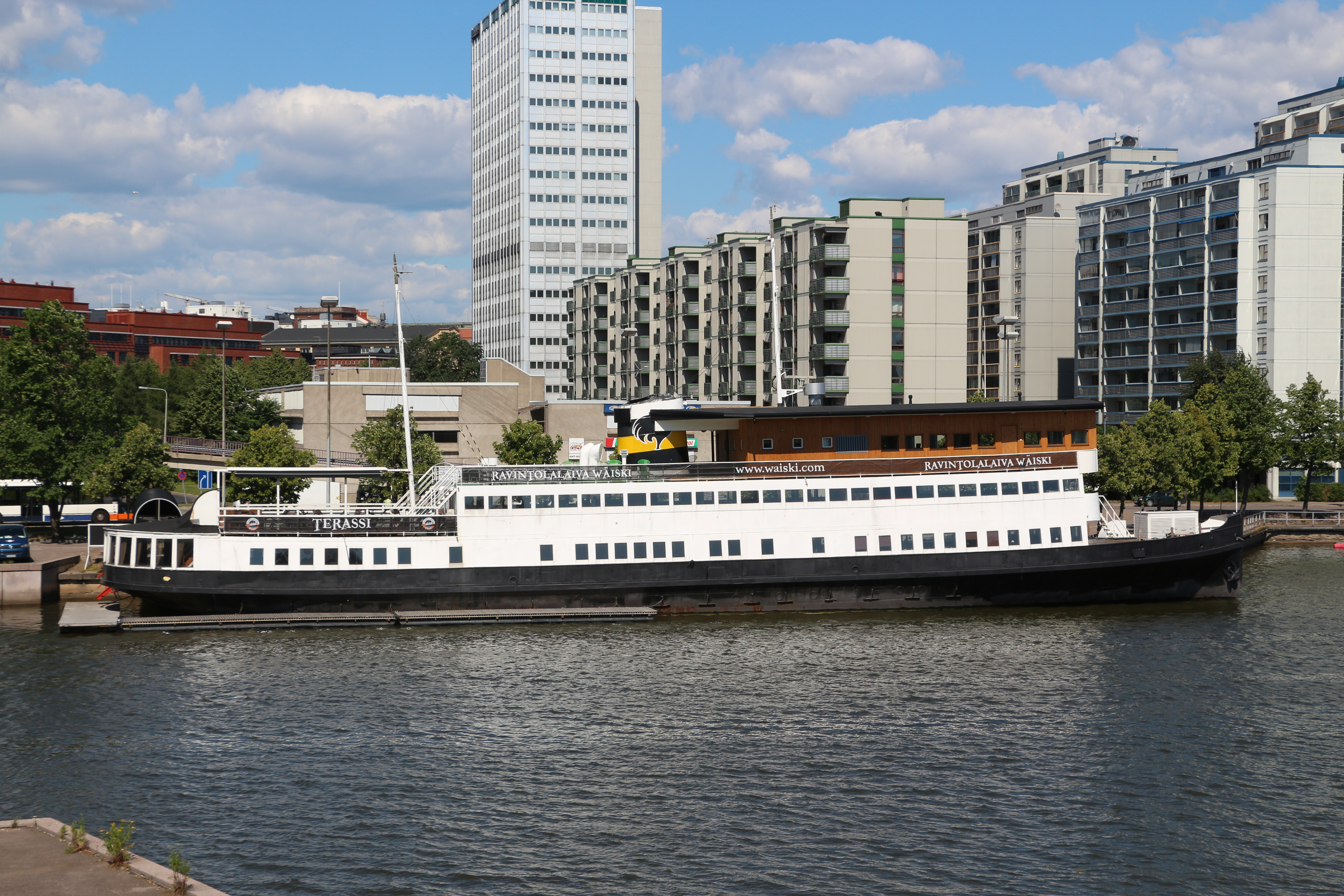 Wäiski restaurant boat